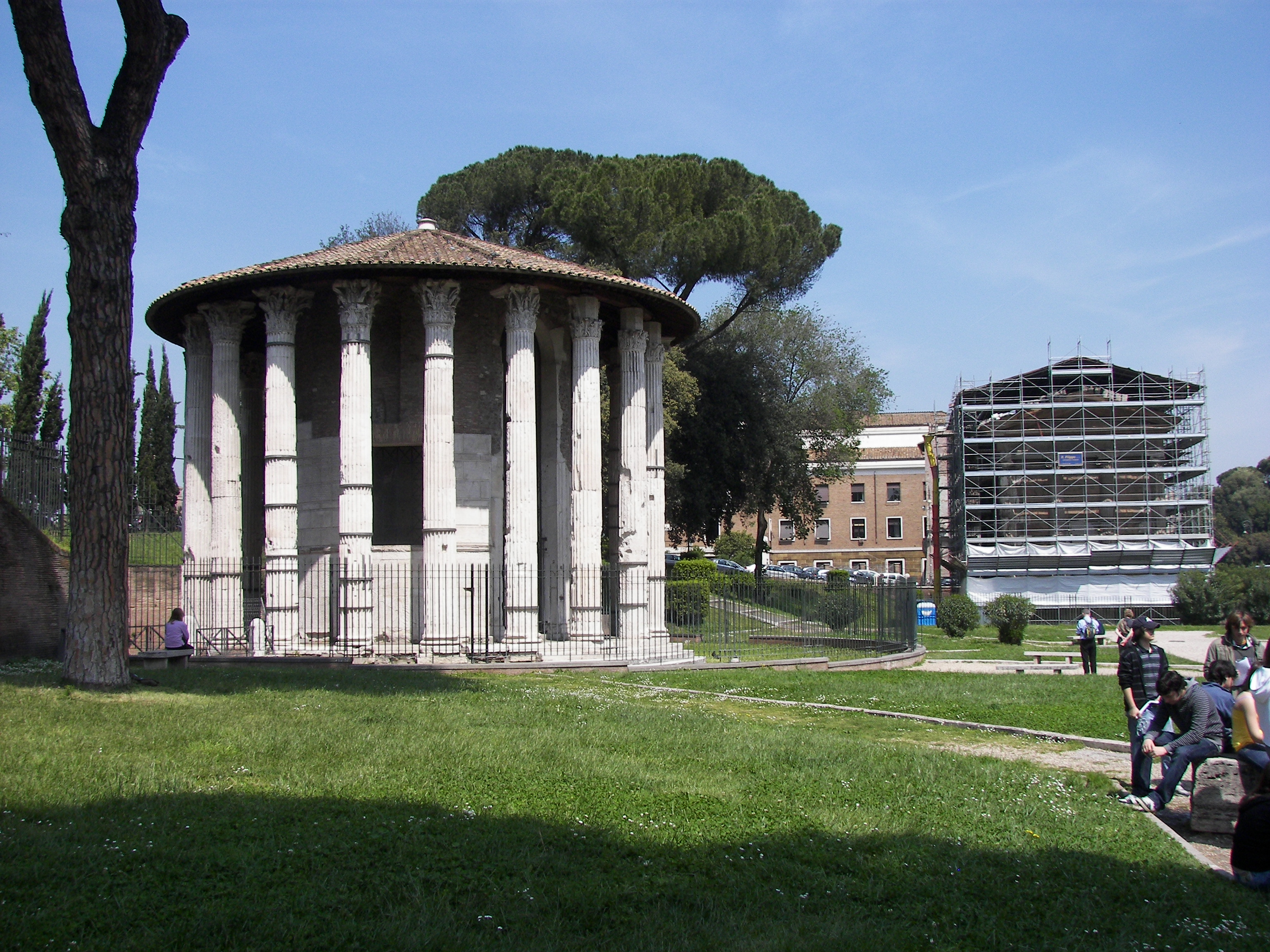 Forum Boarium in Rome with the Temple of Hercules Victor in the foreground and the Templum Portunus undergoing renovations in the background.